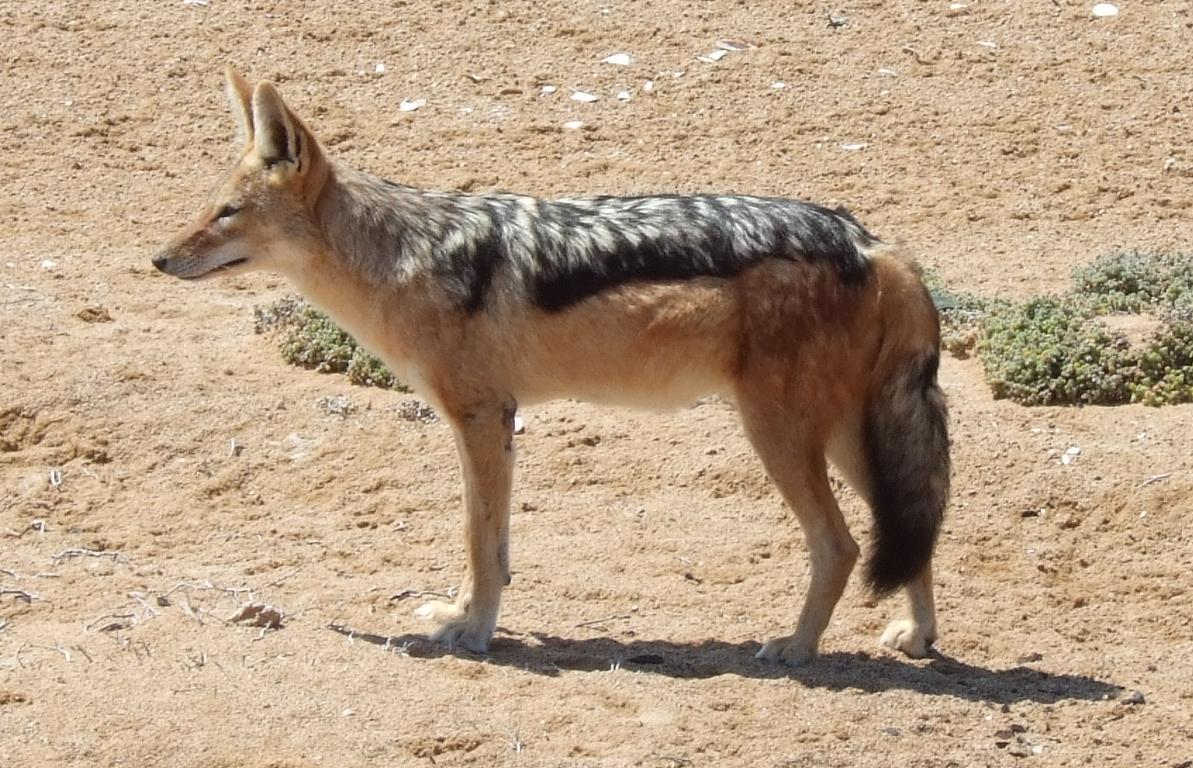 Black-backed jackal (Canis mesomelas), Cape Cross, Namibia